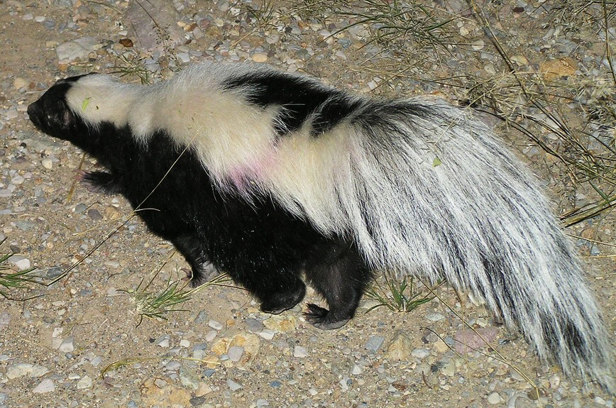 Striped skunk (Mephitis mephitis) at Big Bend National Park, Texas